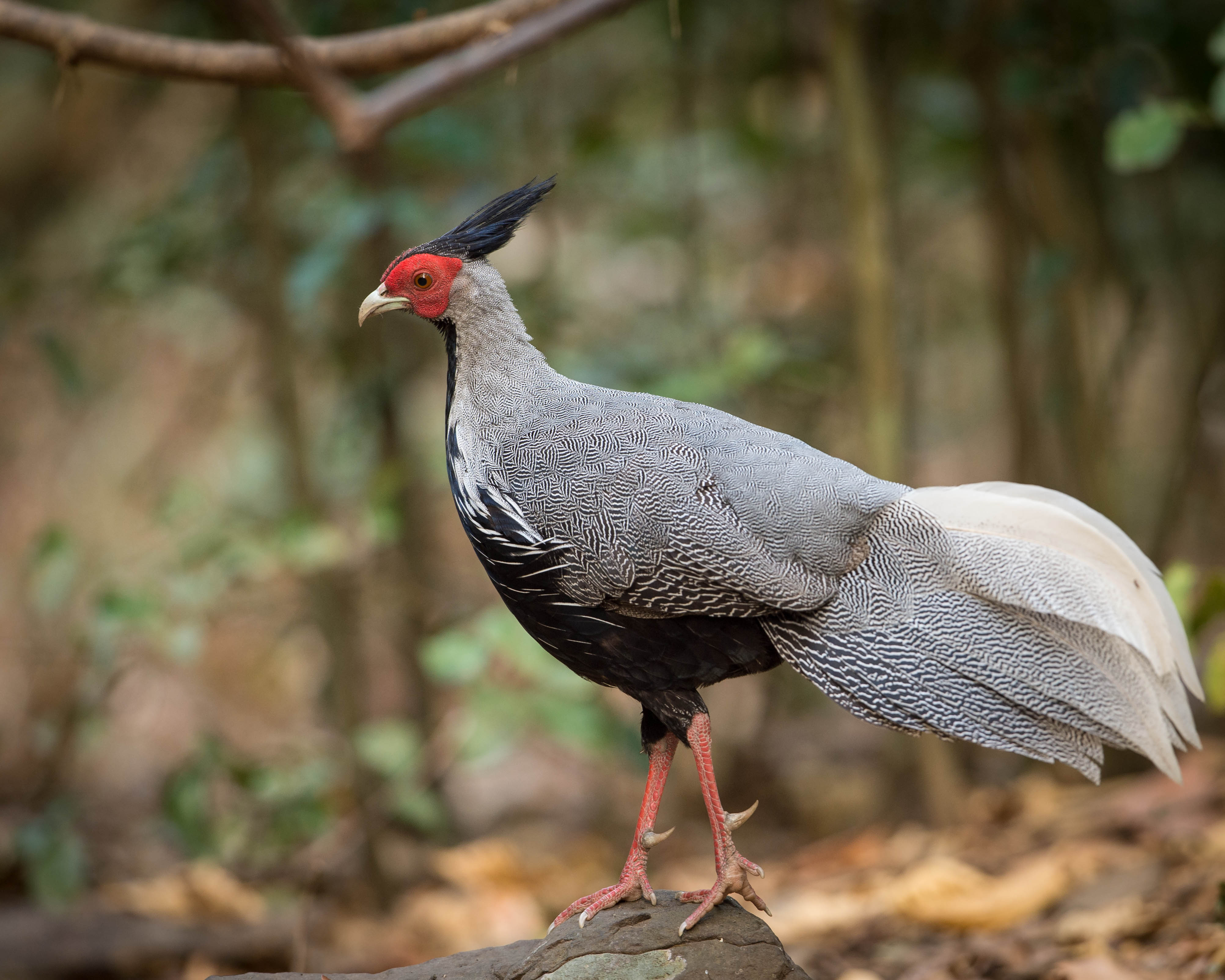 Kalij Pheasant(Lophura leucomelanos) at Kaeng Krachan National Park. 5 March 2013